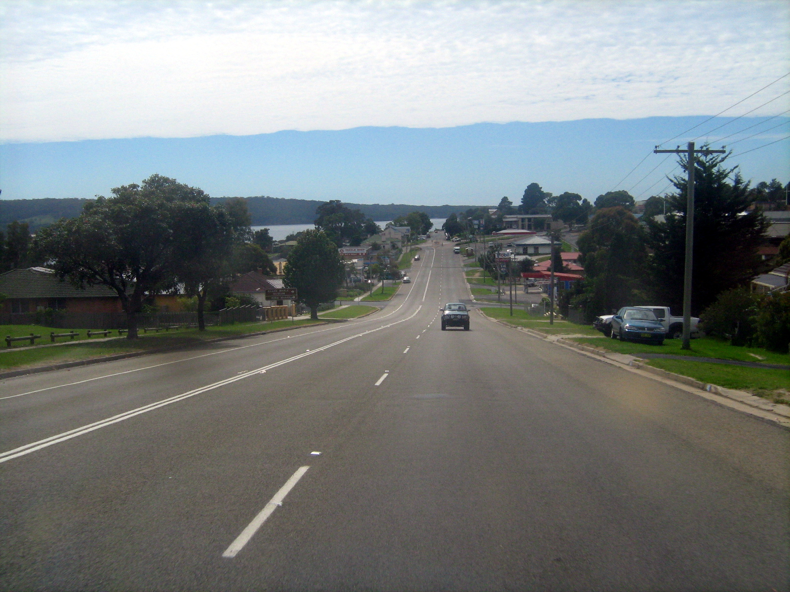 The Princes Highway at Eden, New South Wales.